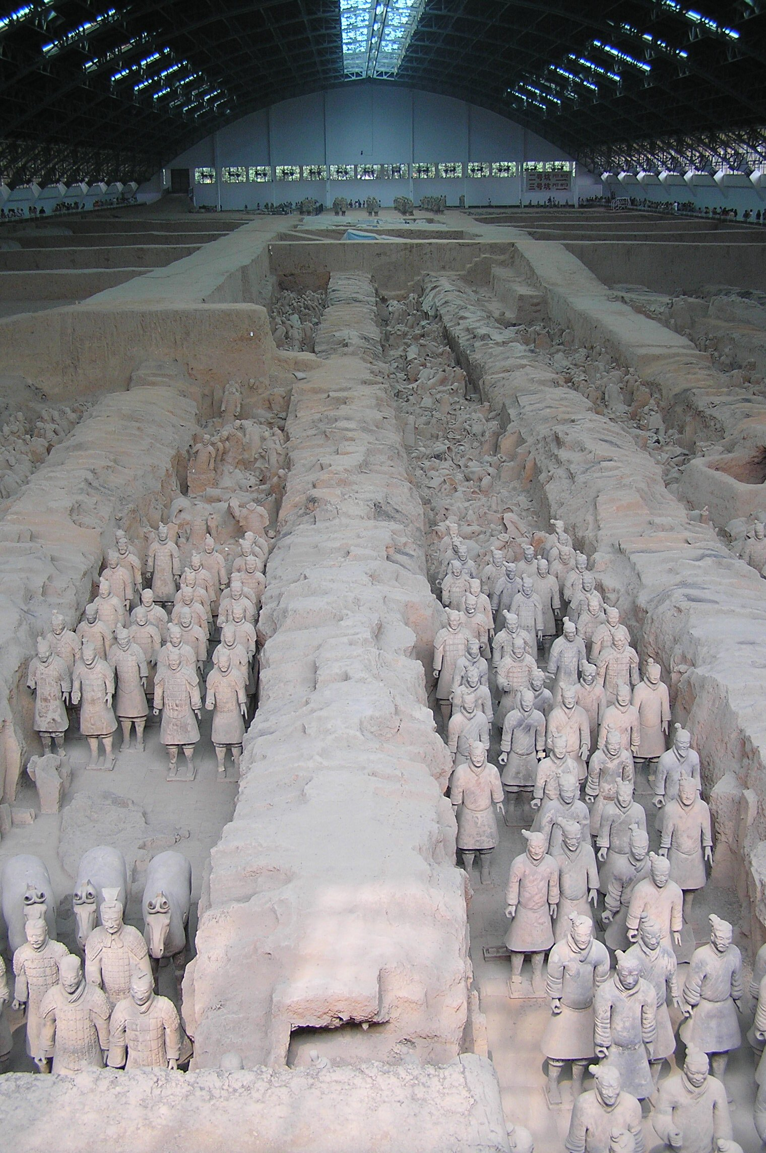 General view of the Pit 1 at the Xian Terracotta Warriors Museum (Xian, China) Author: Mr. Tickle Date: 07/22, 2005